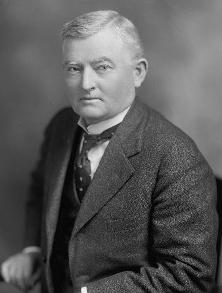 Reuploaded photograph of Vice President John Nance Garner from the Harris & Ewing Collection. Touched up and cropped by Emiya1980 using Photo Editor at